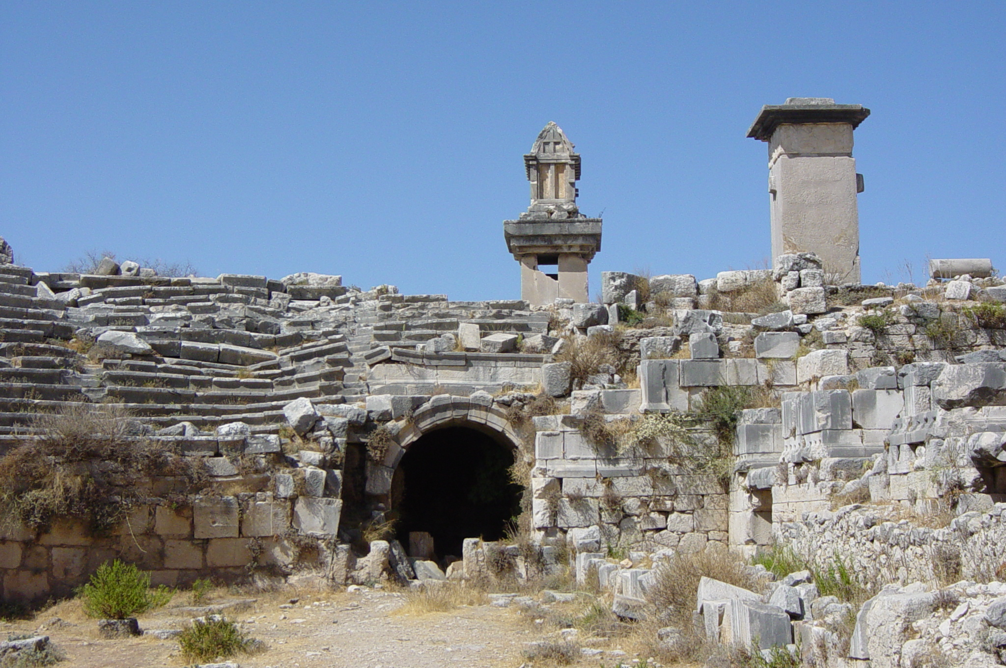 Theatre at Xanthos, overlooked by Lycian tombs